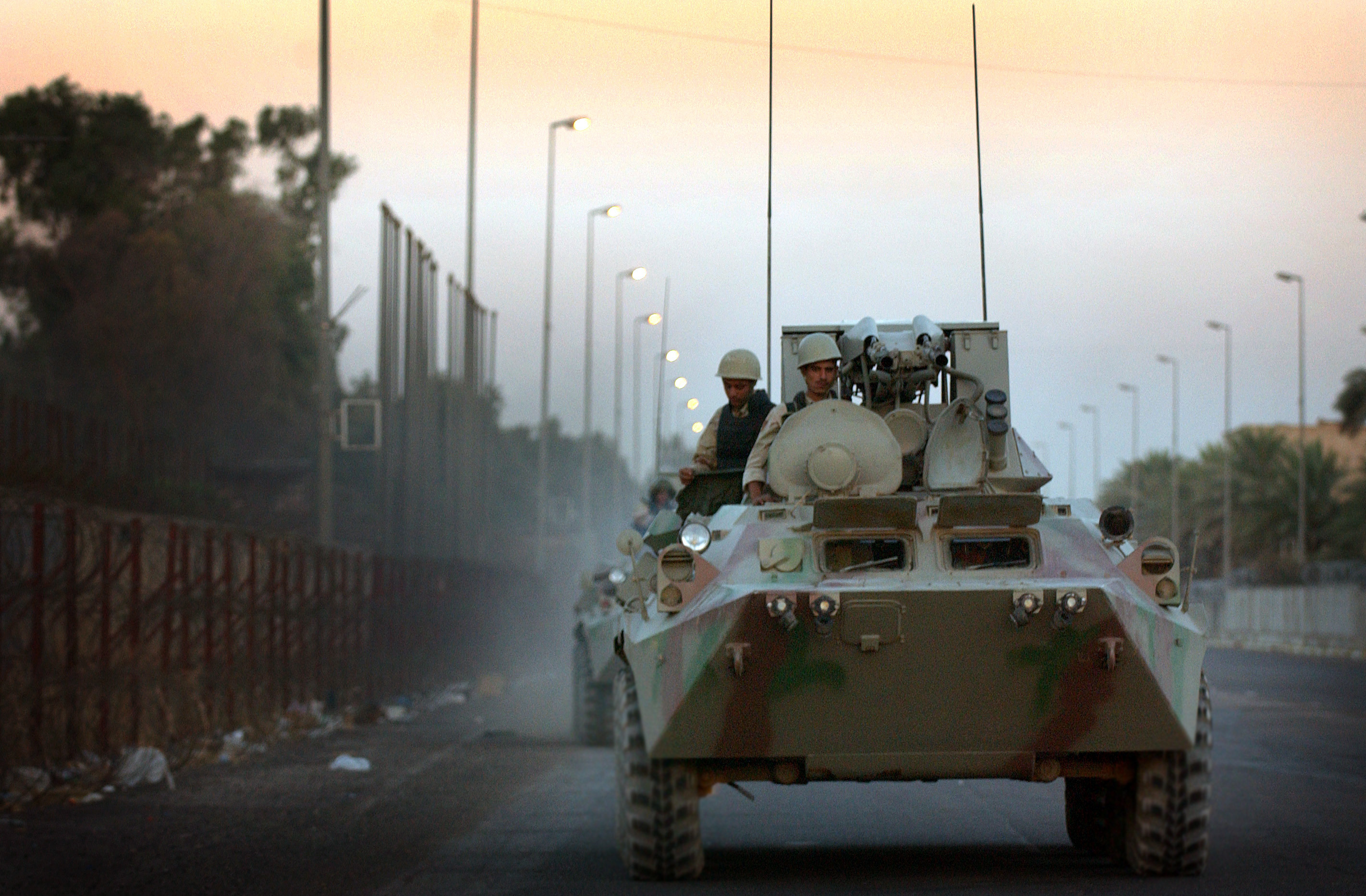 In the early morning hours Iraqi National Guard (ING) troops move BTR-94 (8X8) Armored Personnel Carriers (APC) into position in Baghdad, Iraq (IRQ), to provide security for the Iraqi Democratic National Conference during Operation IRAQI FREEDOM.